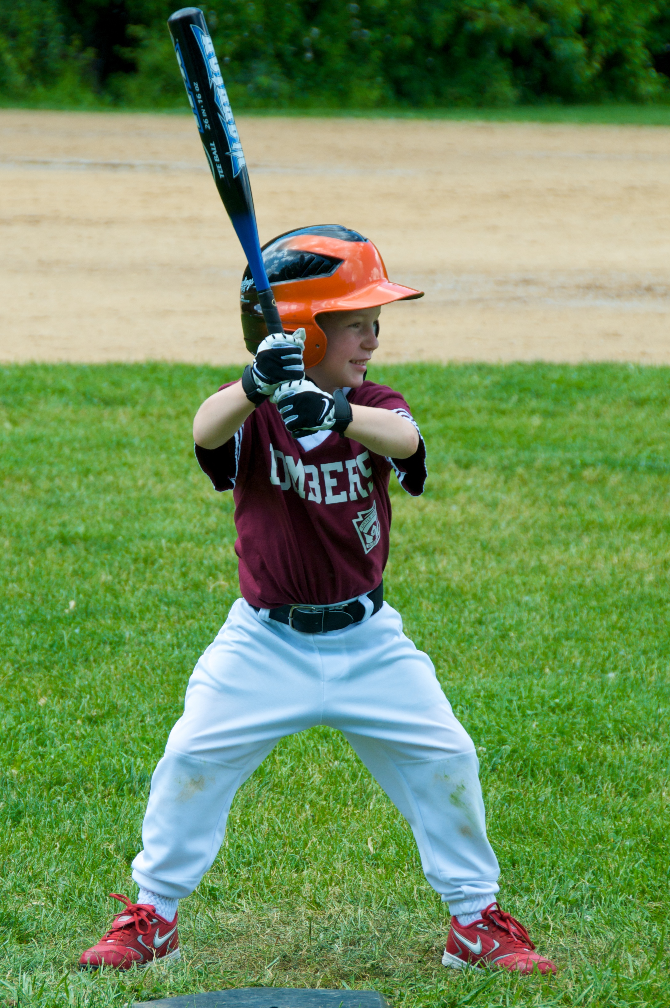 Little League baseball on a Saturday afternoon, 30 May 2009.